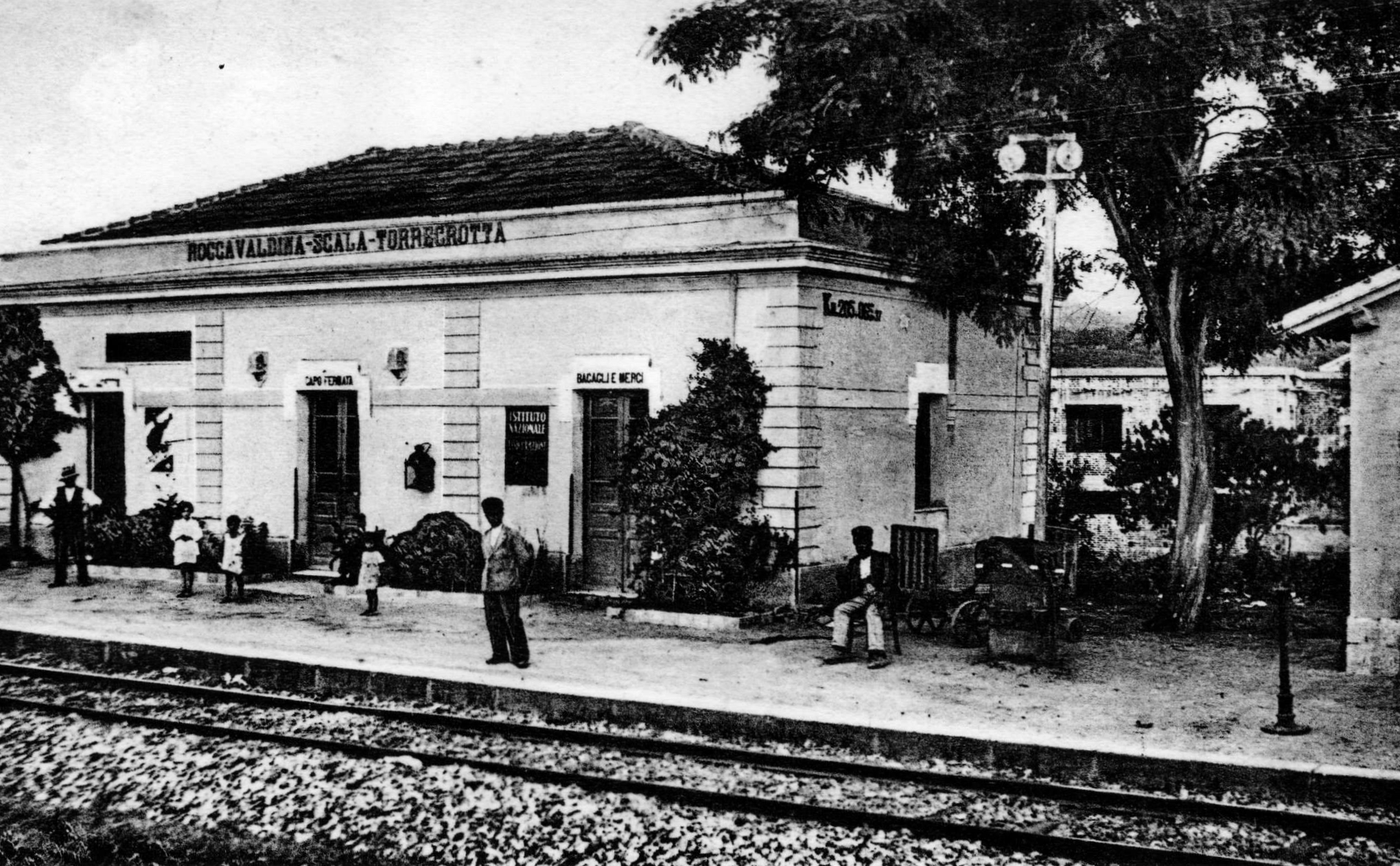 Vintage postcard of Roccavaldina-Scala-Torregrotta train station, Sicily, Italy.